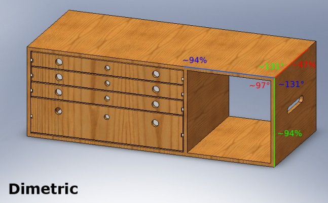 Dimetric projection